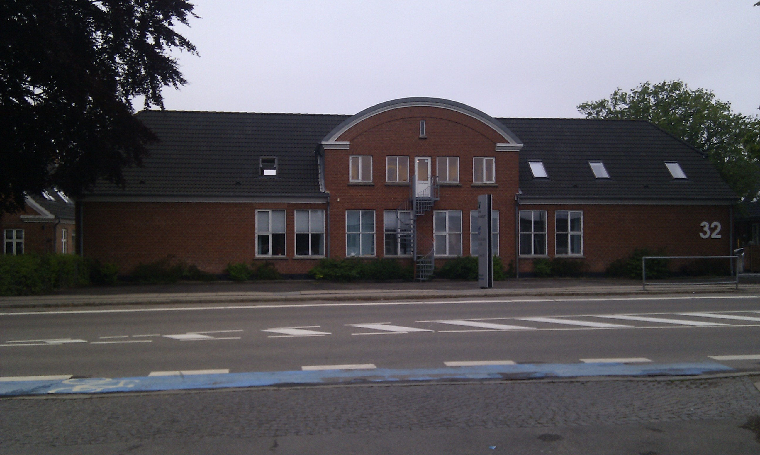 Former "Søndre Skole" in Holbæk, Denmark